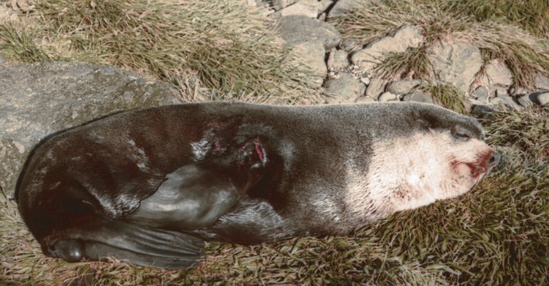 This picture was taken in Possession Island (Crozet Archipelago) at the site named "the elephant seal pool". This picture was taken in december 2002 by Nicolas Servera. You can see a male of the subantarctic fur seal (Arctocephalus tropicalis) injured in the foreleg during a confrontation with another male. The injury is deep and now the male is resting on the grass.